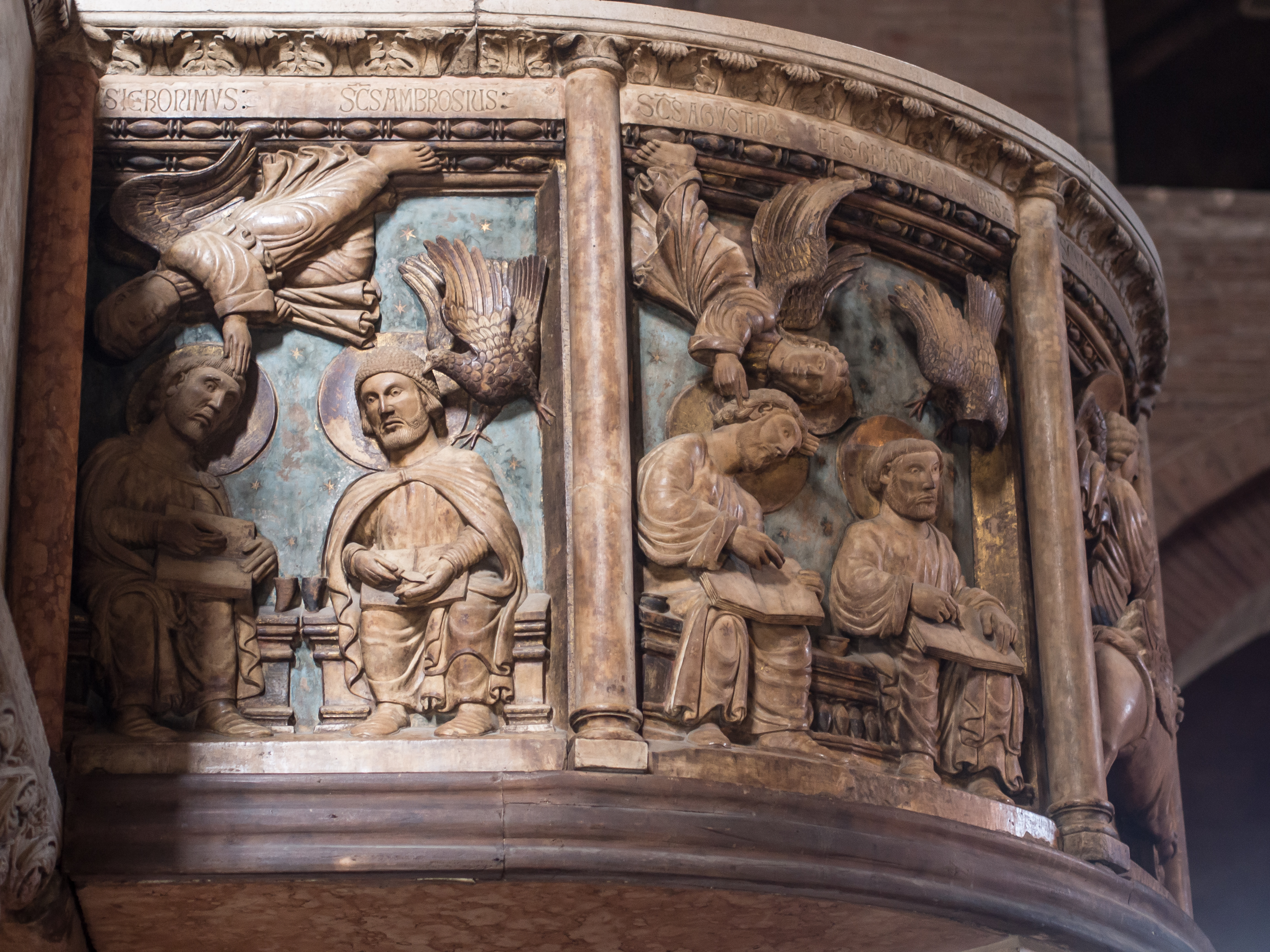 Modena Cathedral inside